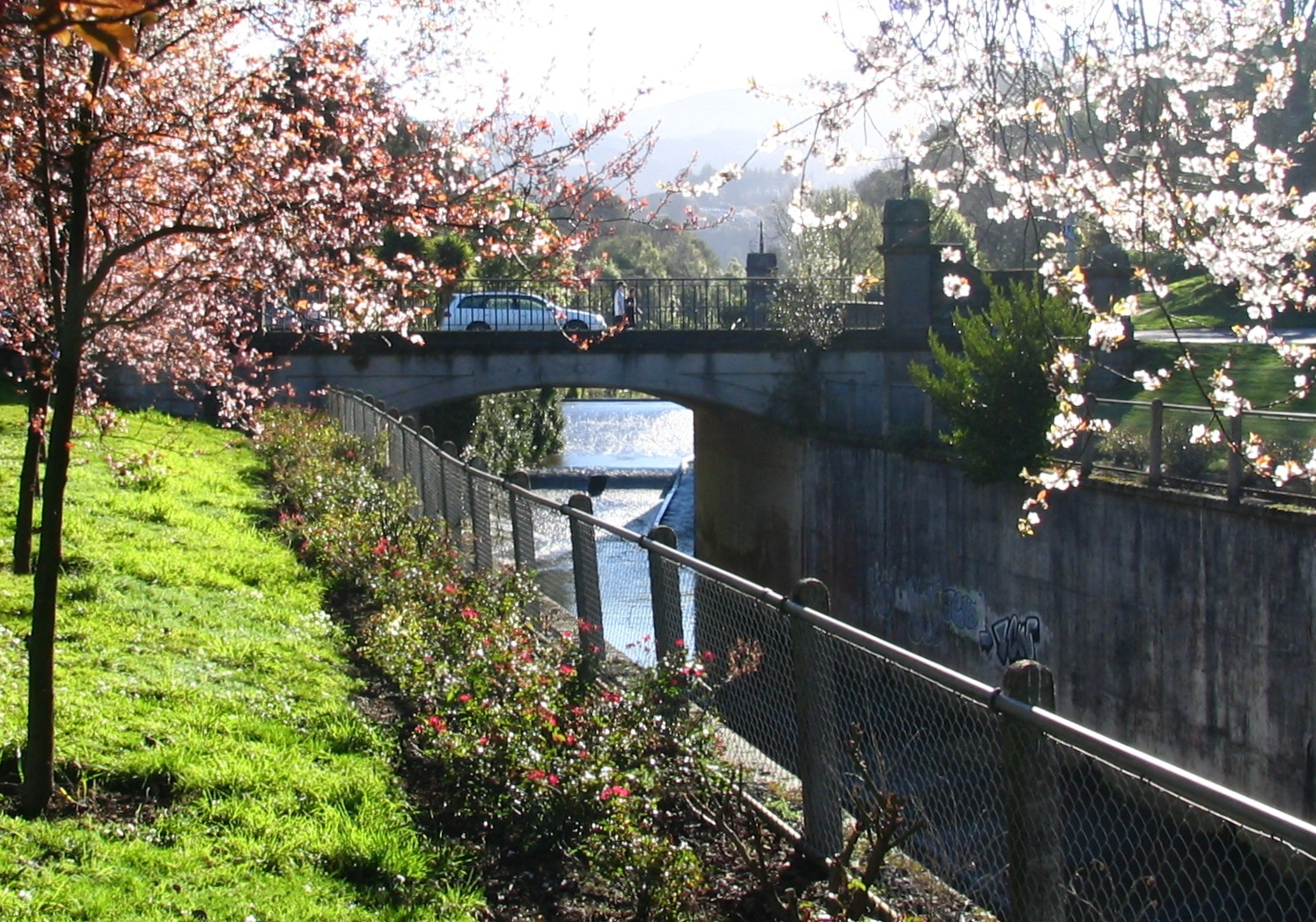 George Street Bridge and Water of Leith stream, Dunedin, New Zealand.